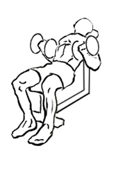 an exercise of biceps